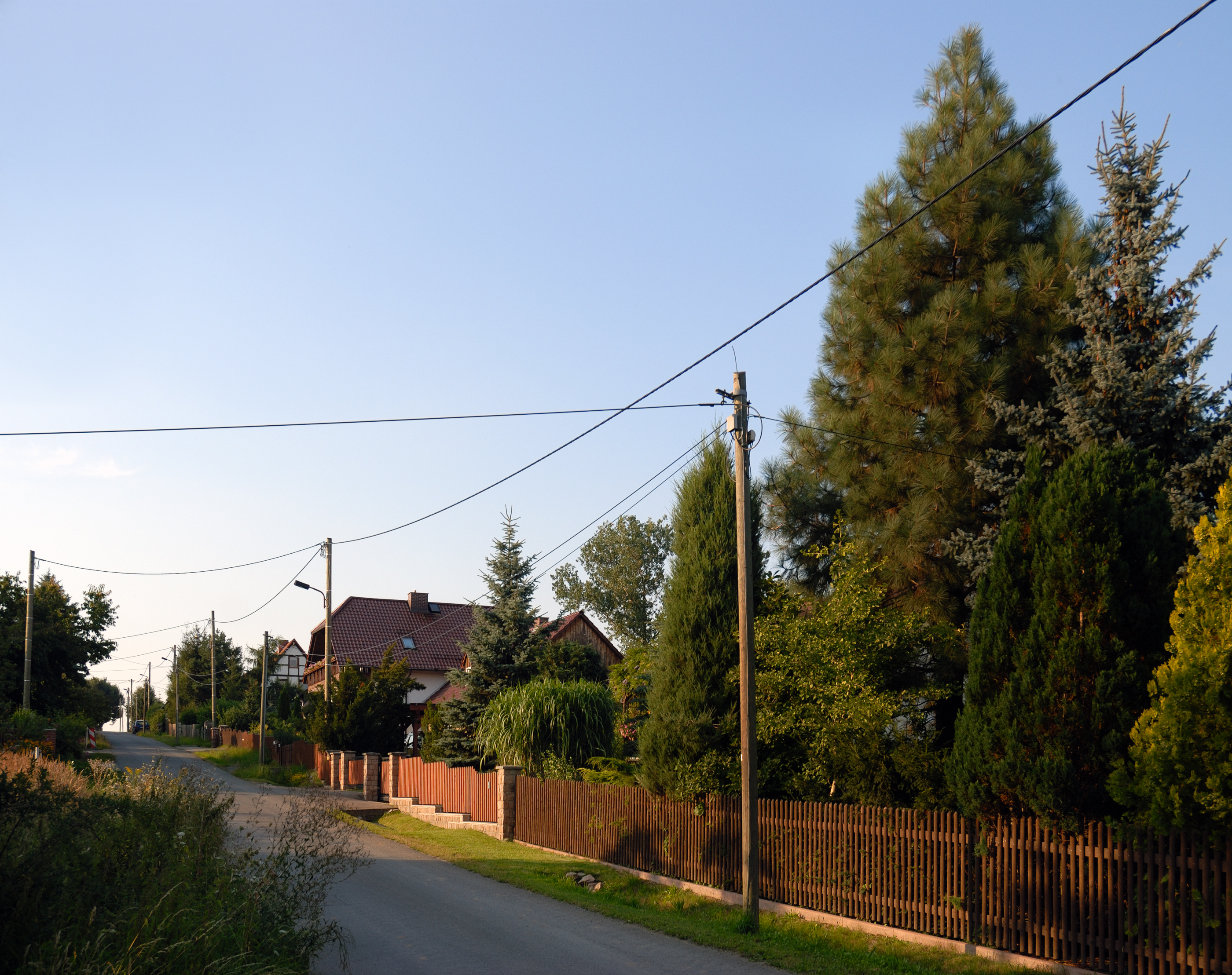 This image shows the Leubnitz Forest Colony in Werdau, Germany.